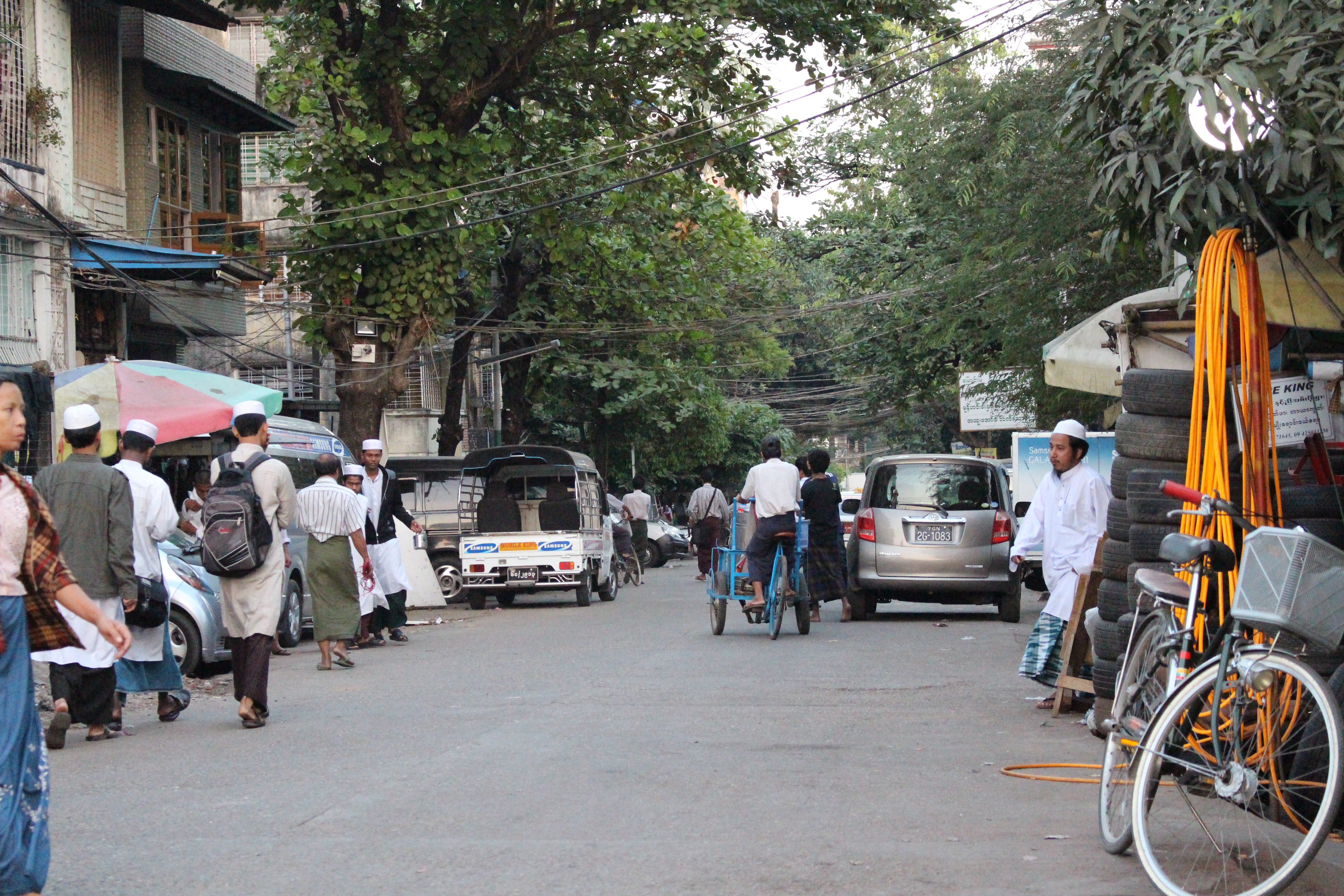 Muslim Men in Tarmwe, Yangon. Tarmwe is one of the townships where majority of residents are Muslims.